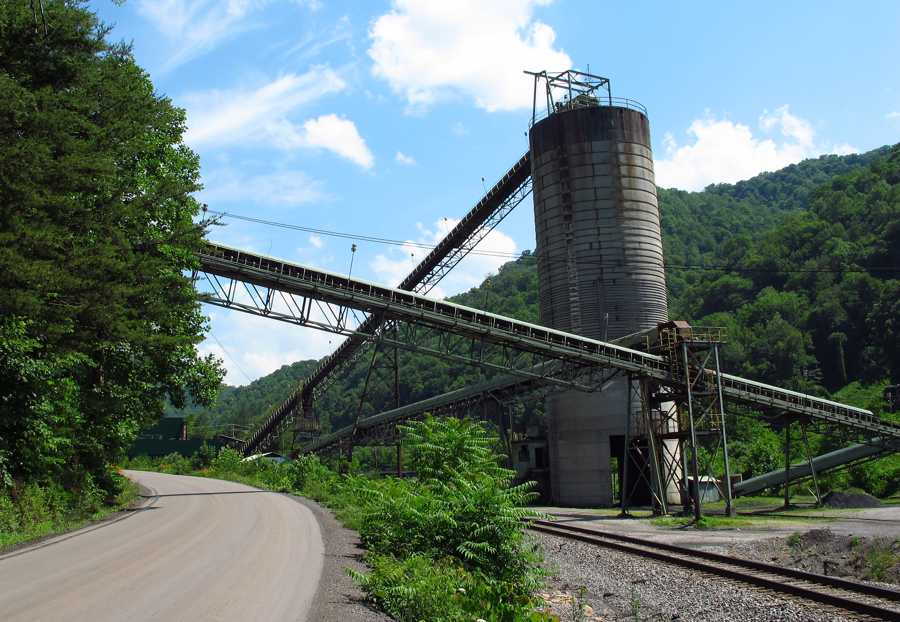 Mine in Big Rock, Virginia.